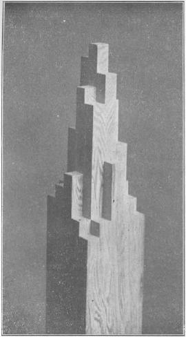 Robert van 't Hoff. Stair pole. c 1918. Material, dimensions and location unknown. From De Stijl, vol. 1, Nr. 6 (April 1918).